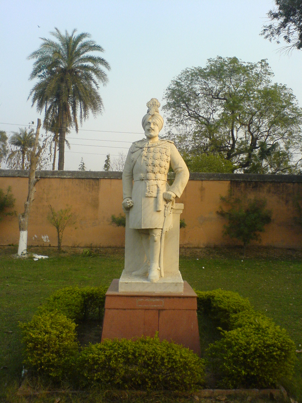 Bhupinder Singh statue in Moti Palace Museum, Patiala Source: Taken by User:KawalSingh in November 2007.